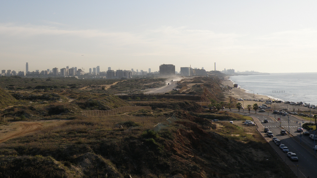 Tel Michal, Herzliya, Israel